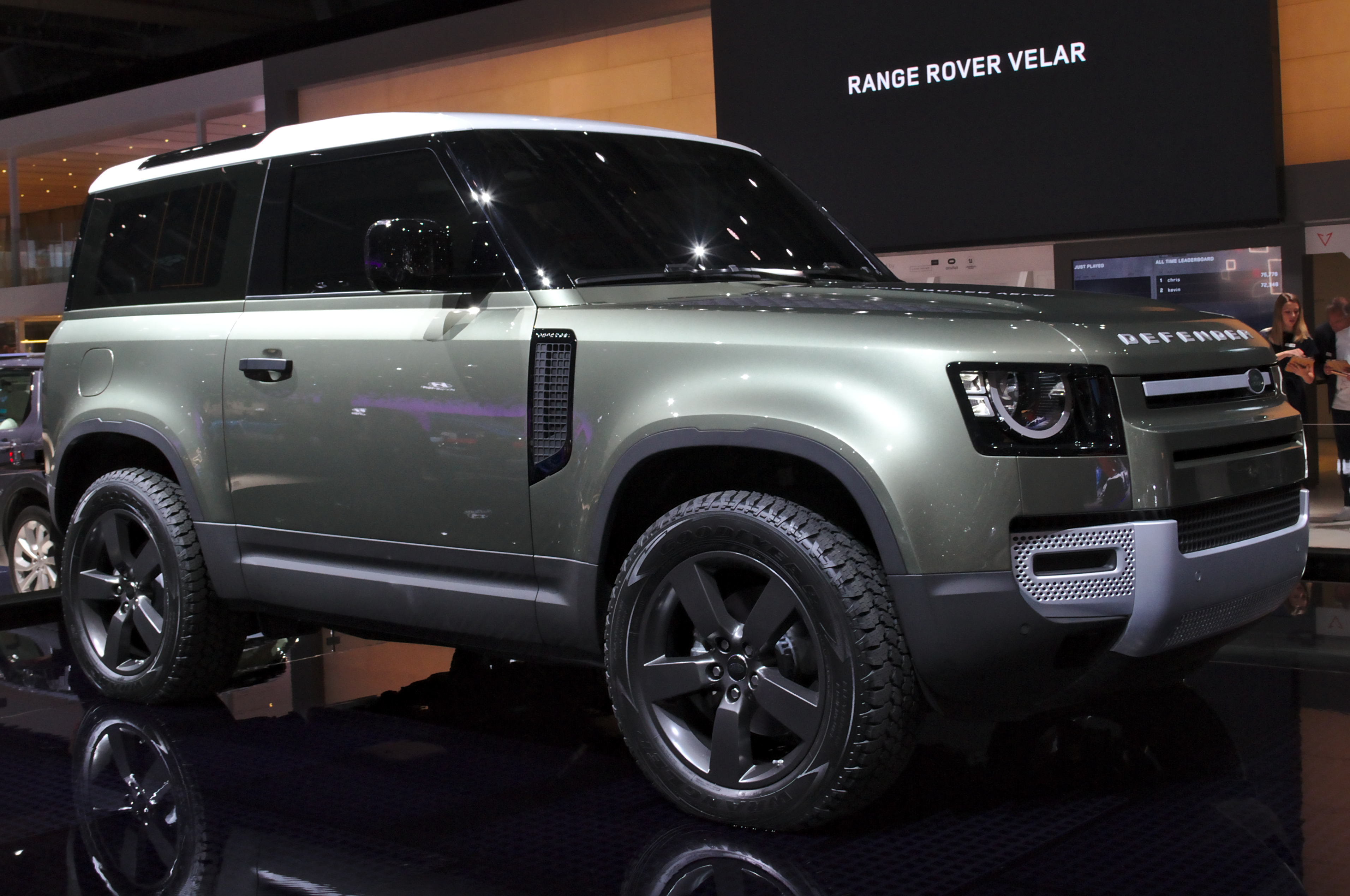 Land_Rover_Defender_(L663) at IAA 2019